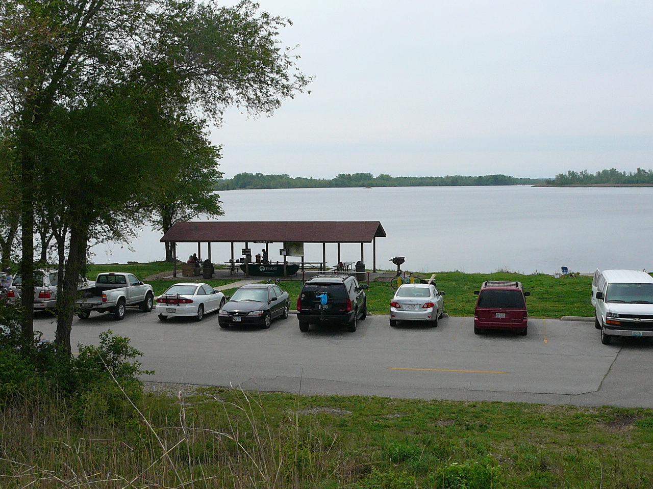 Registration for the Prehistoric Pedal was held at Horseshoe Lake State Park with easy trail access to the MCT (Madison County Trail) trail system.